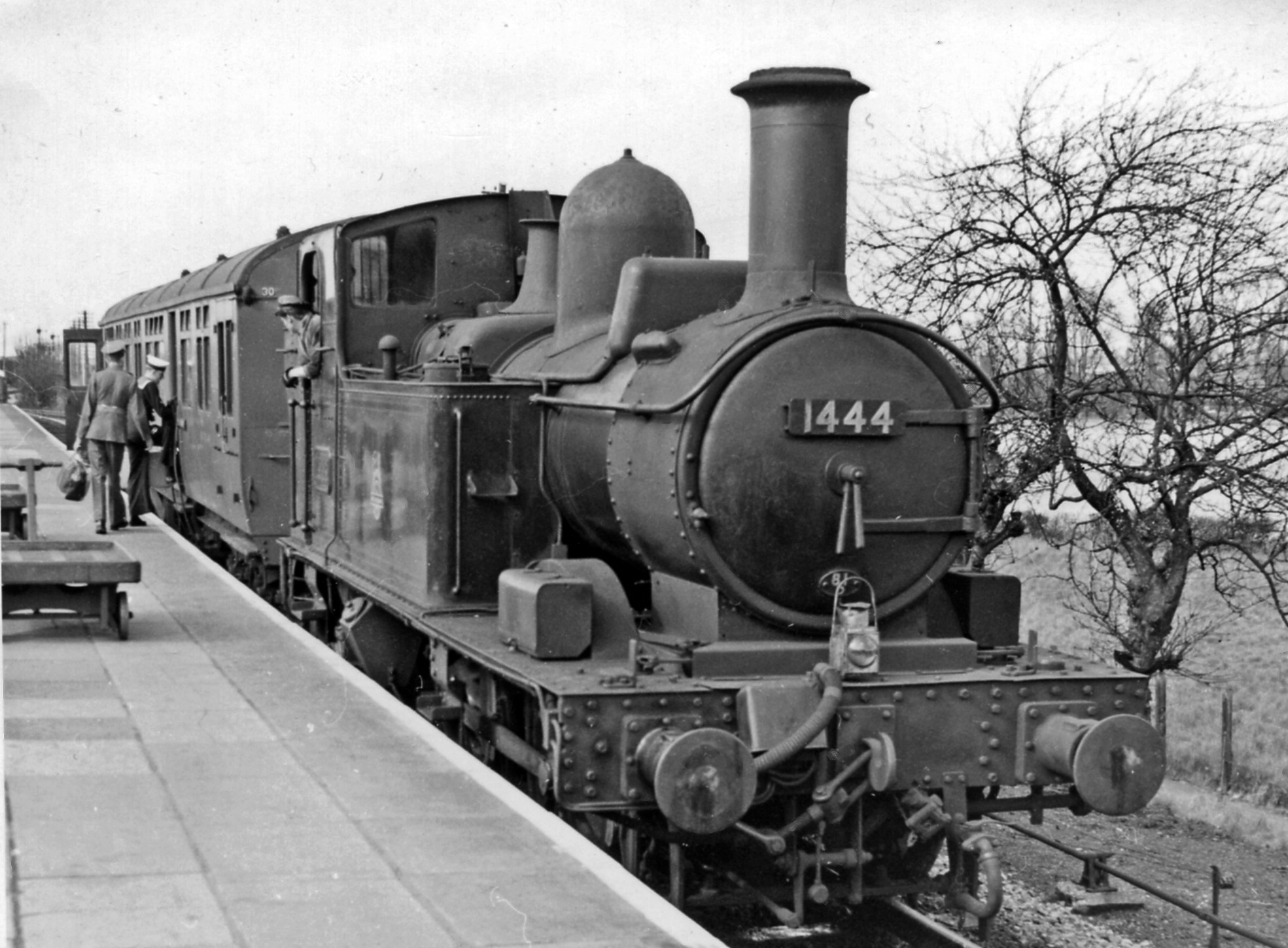 Wallingford branch auto-train at Cholsey & Moulsford Station. Photograph taken on the same day as SU6089 : Wallingford Station, with auto-train and (detached) 0-4-2T, the view is NW, with the auto-train from Wallingford in the bay platform on the Up side of the station on the main ex-GWR London - Reading - Swindon etc. line.